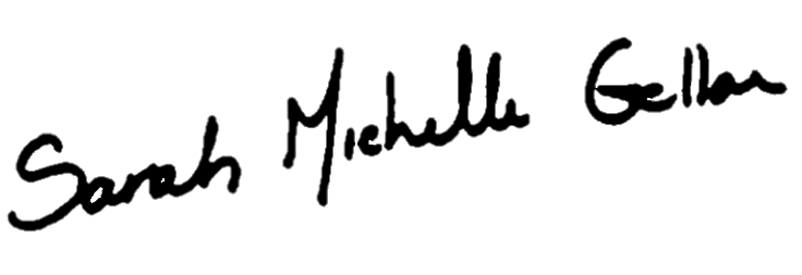 Actress Sarah Michelle Gellar's signature from a promotional still of the 6th season of the television series Buffy the Vampire Slayer.